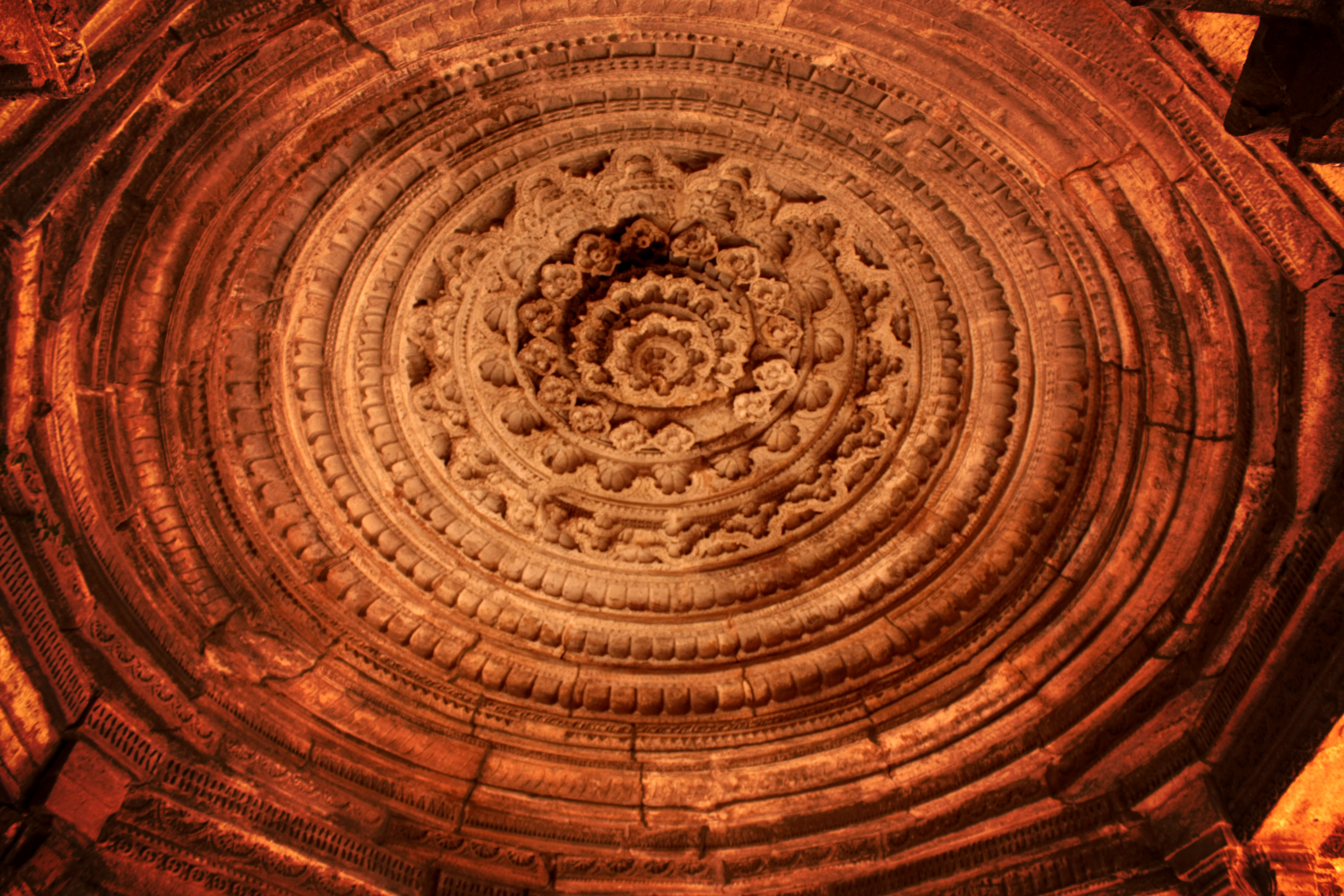 Carving detail of a dome in the entrance corridor area of Jami Masjid. Location - Khambhat (Anand District), Gujarat - India